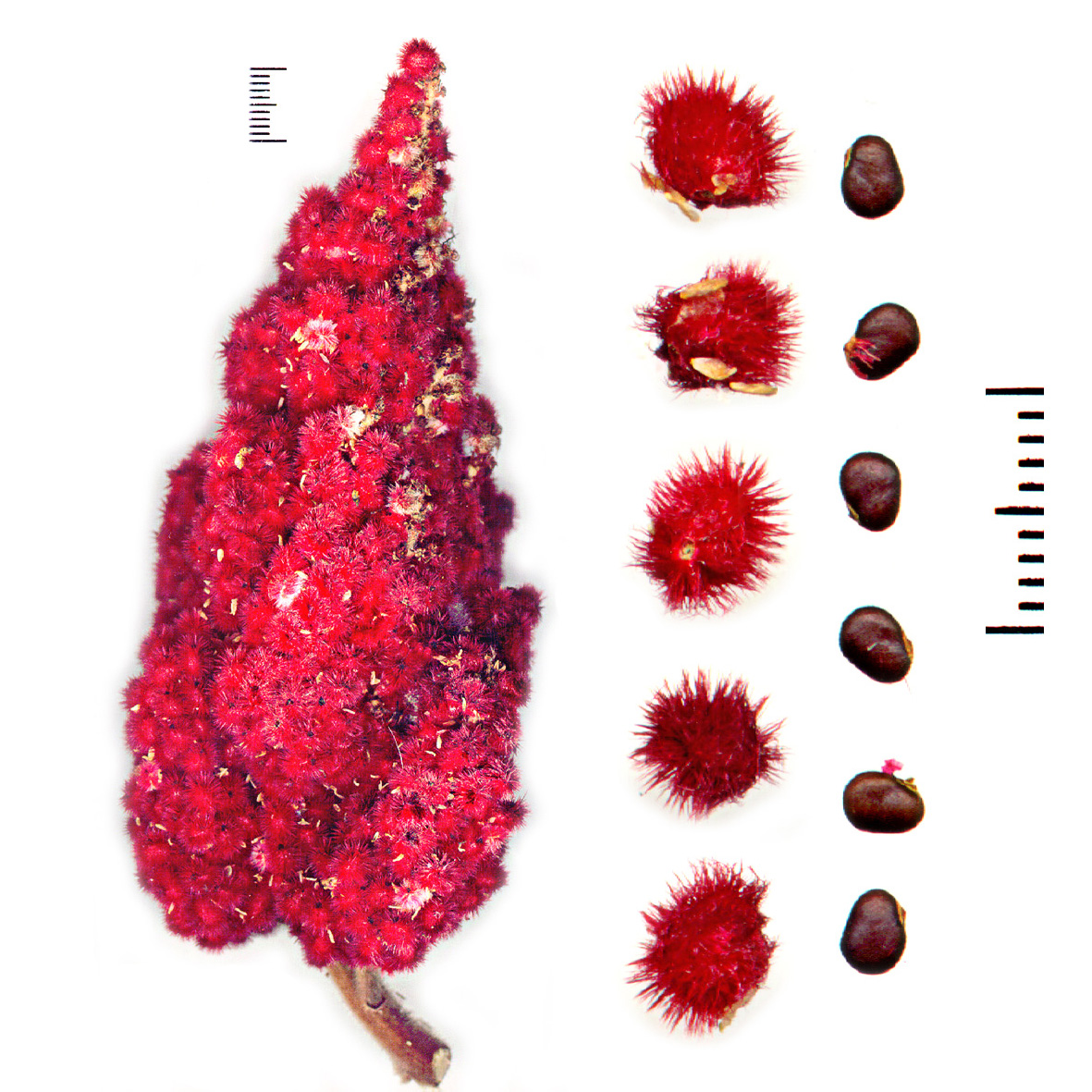 Rhus typhina fruit